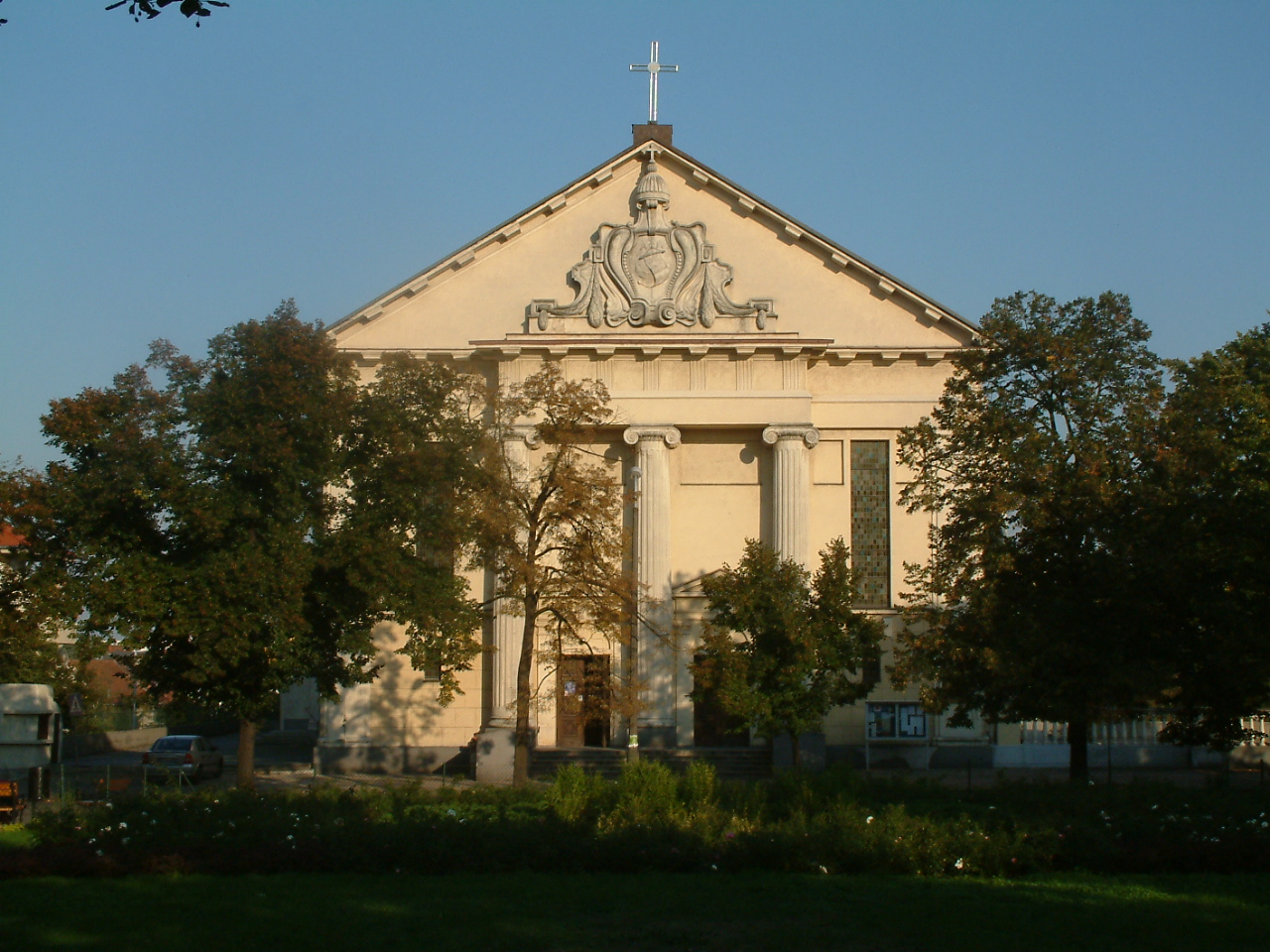 Church of Lord's Ressurection in Poznań